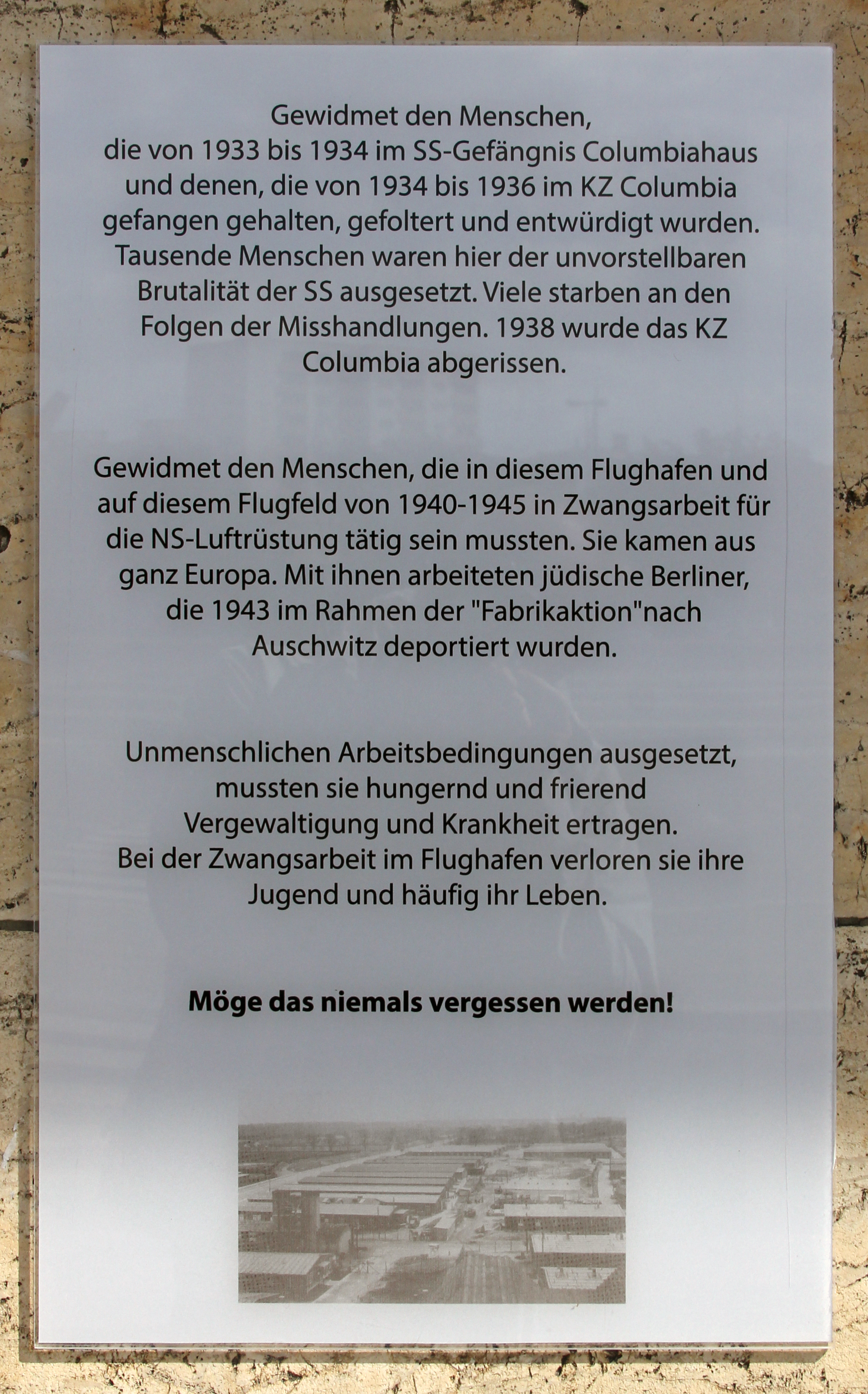 Memorial plaque, KZ Columbia, Platz der Luftbrücke 5, Berlin-Tempelhof, Germany